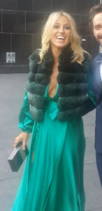 Émily Bégin photographed in Montréal, Québec, Canada at the Prix gémeaux 2016 red-carpet ceremony.